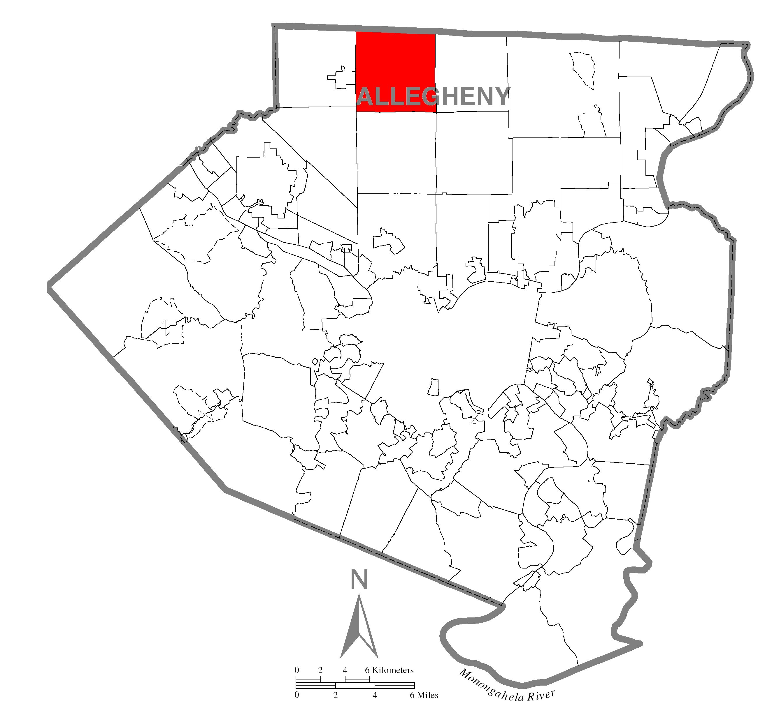 A map of Allegheny County showing Pine Township, Pennsylvania (alternate) highlighted on the map.